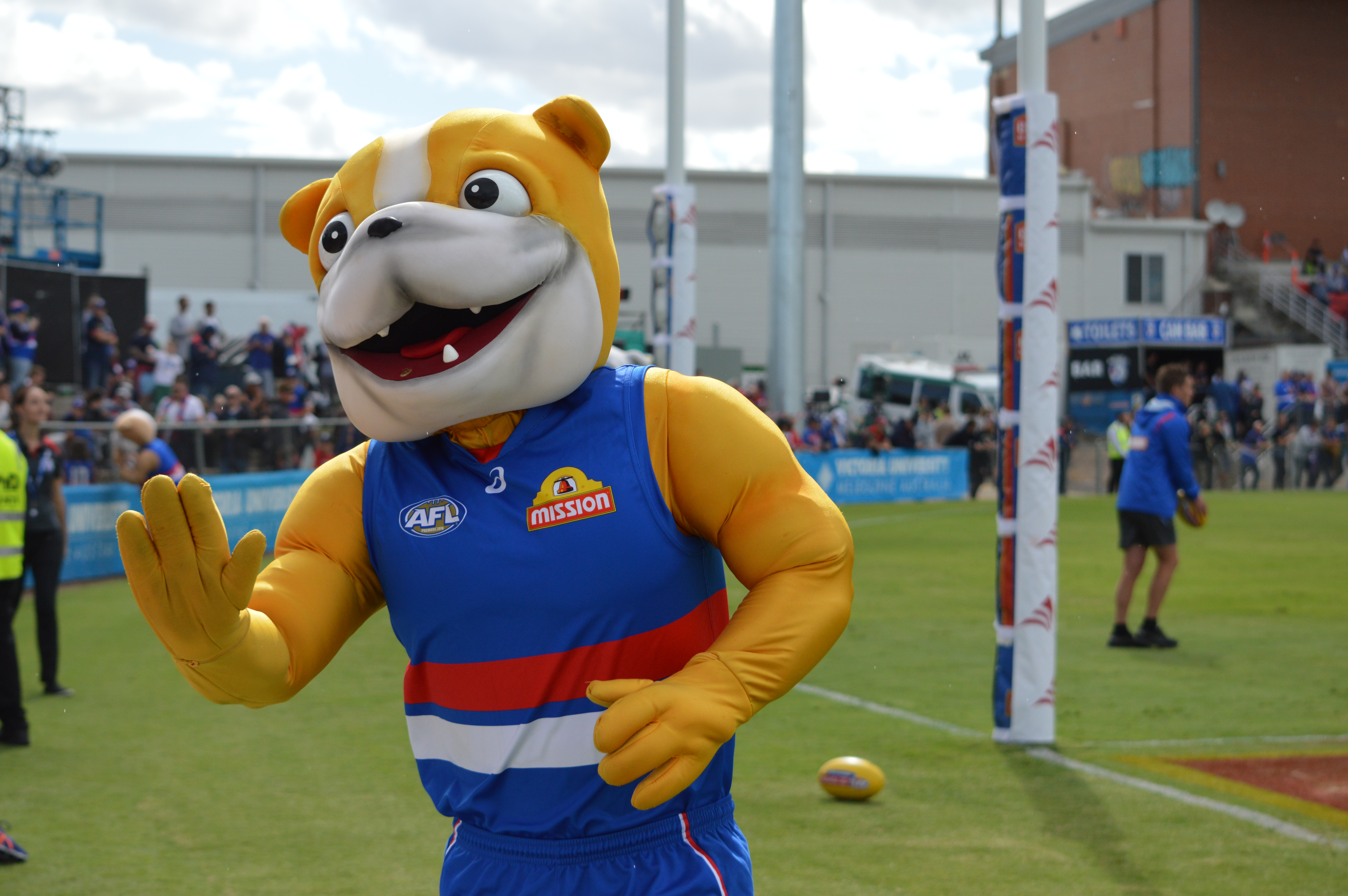 The Western Bulldogs mascot 'Scout' in February 2017